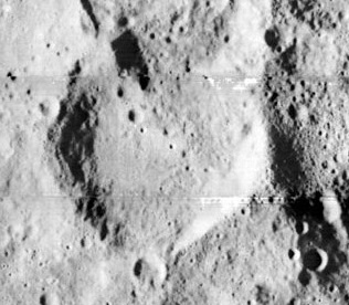 Dellinger, on the moon.